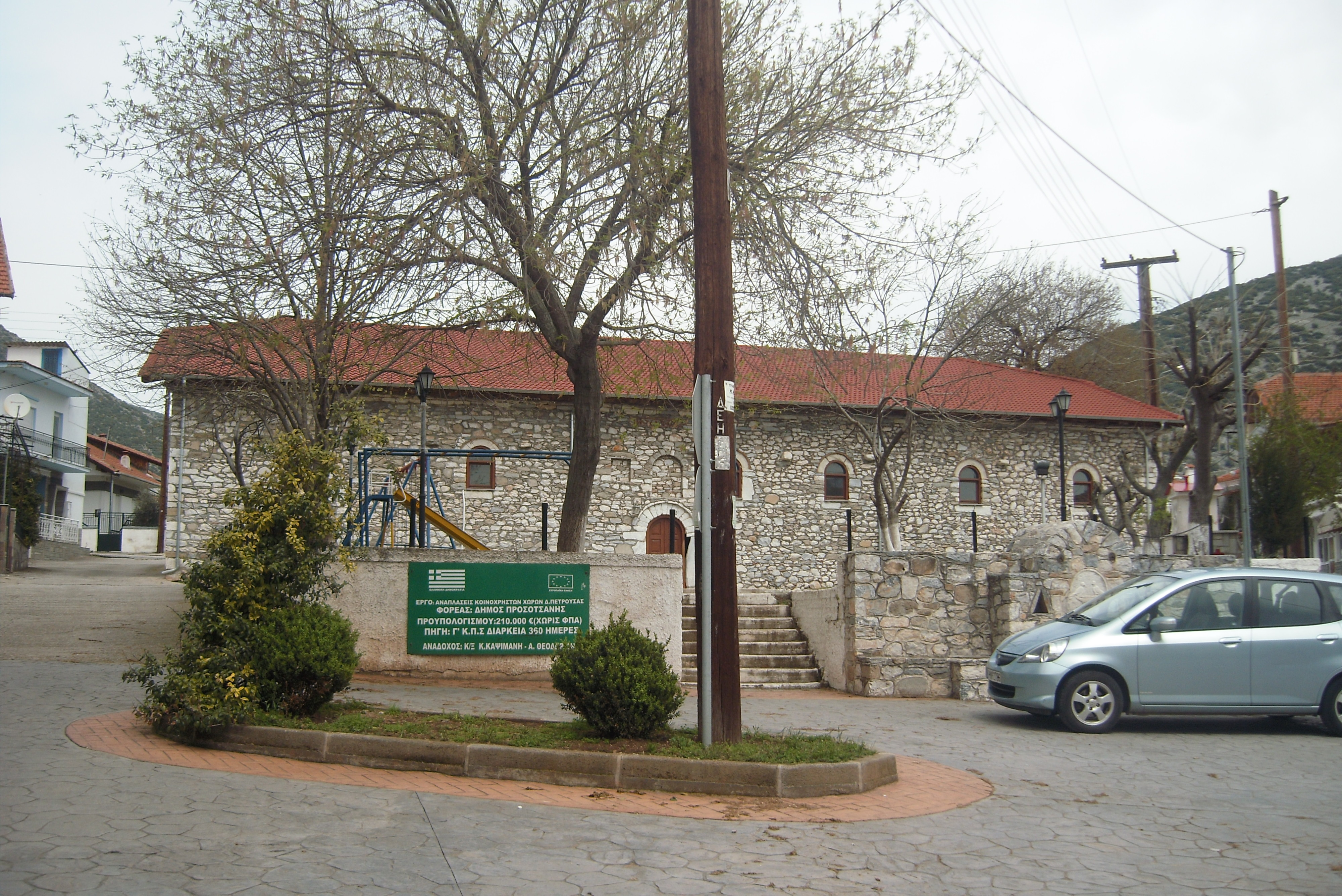 Church in Petroussa (Plevna)